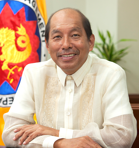 Portrait of Butch Abad